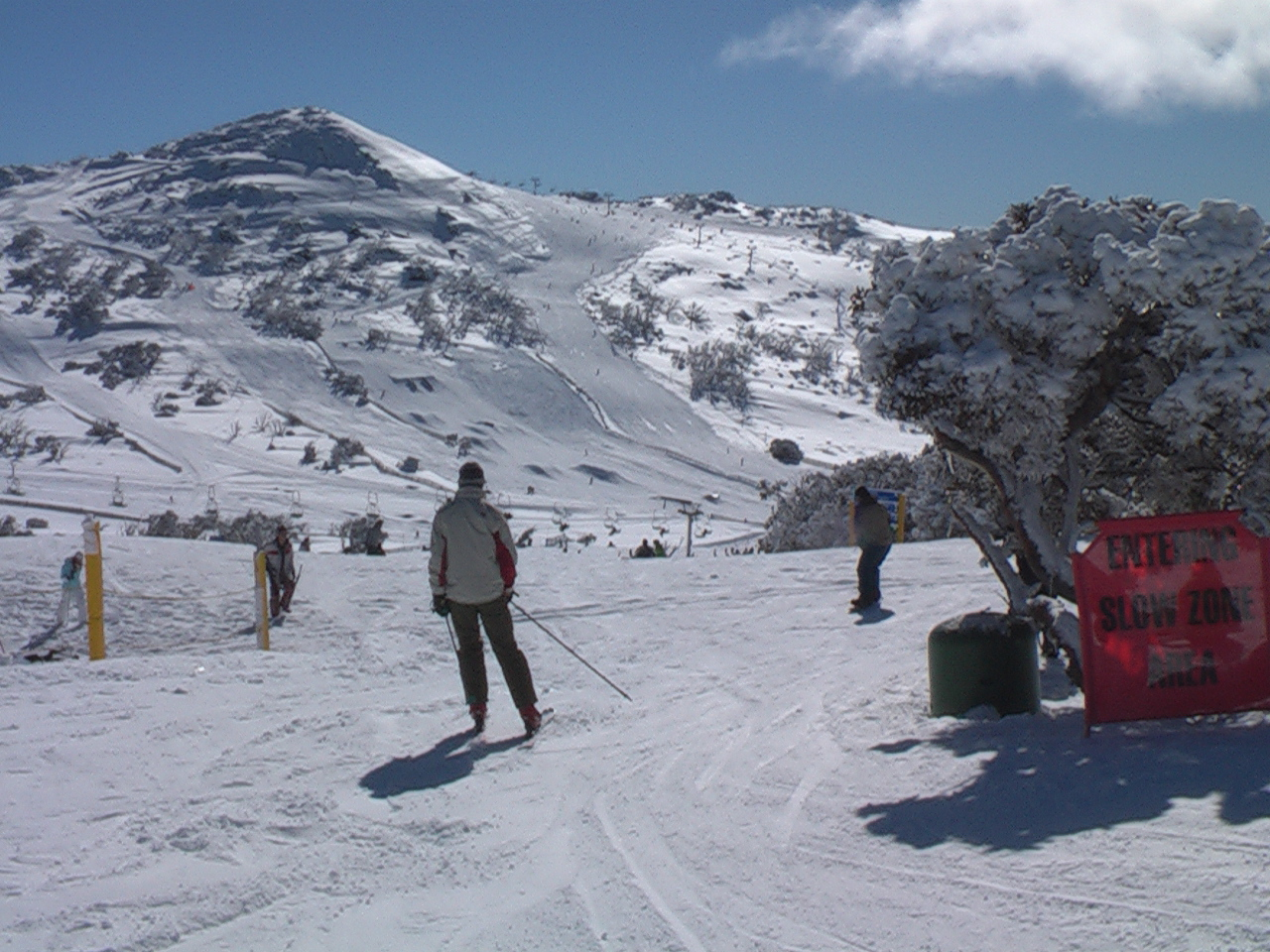 View from outside Blue Cow Terminal towards Summit Quad Chair and Mt Blue Cow, New South Wales, Australia. July 2011.